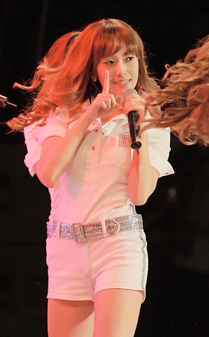 Jessica Jung at Hanyang University Festival on May 17 2011.